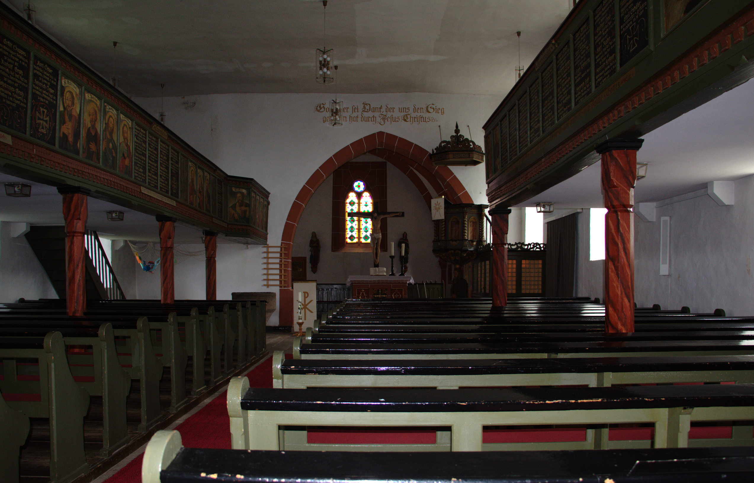 Protestant Church (Altar) in Grebenhain, Crainfeld, Hesse, Germany